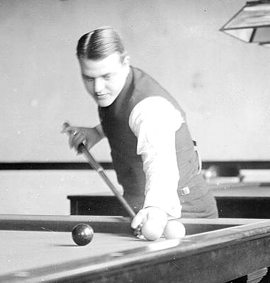 Willie Hoppe, American carom billiards champion, preparing to execute a billiard shot.